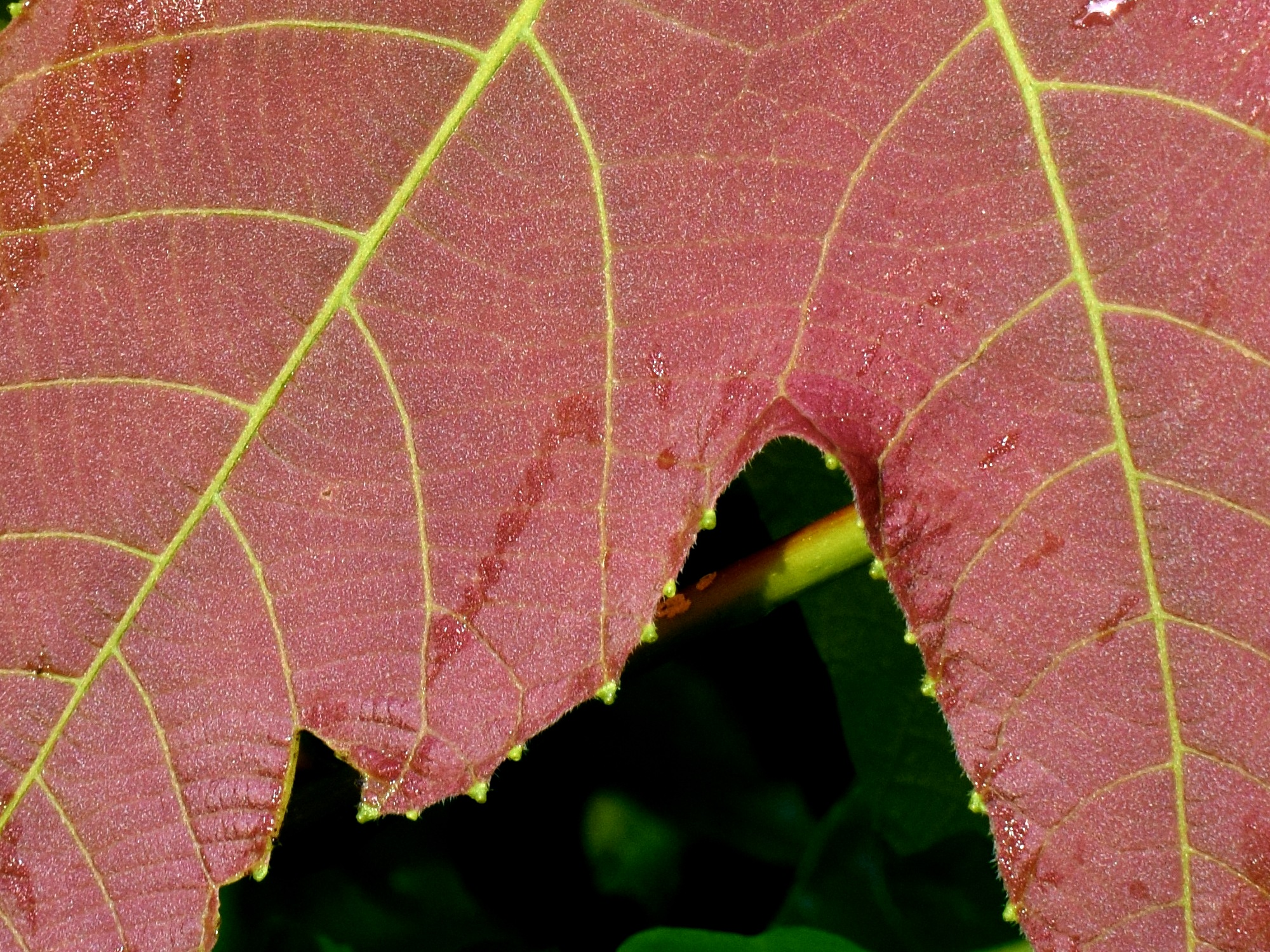 Macaranga triloba; young leaf close up, showing prominent marginal nectaries. From Bogor, West Java, Indonesia.